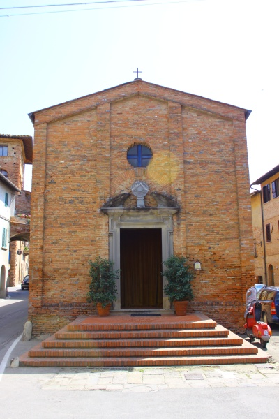 Front of the church of Santa Maria in Palaia